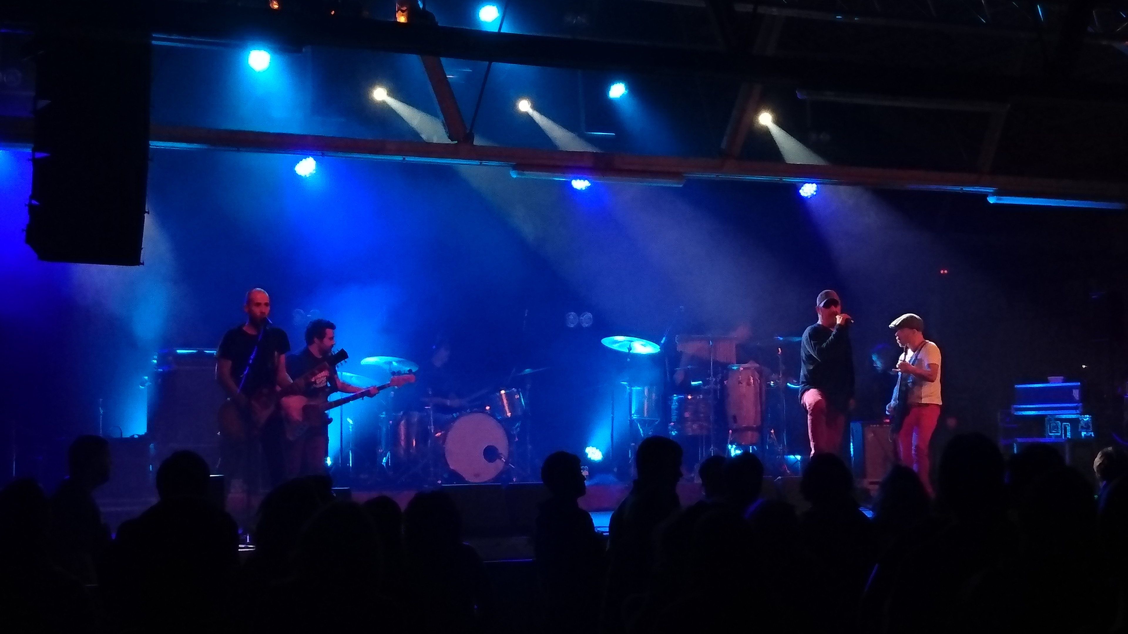 Concert of the Basque music group Gatibu in the 2015 Castanyada Rock, celebrated in Piera (Anoia, Catalan Countries).